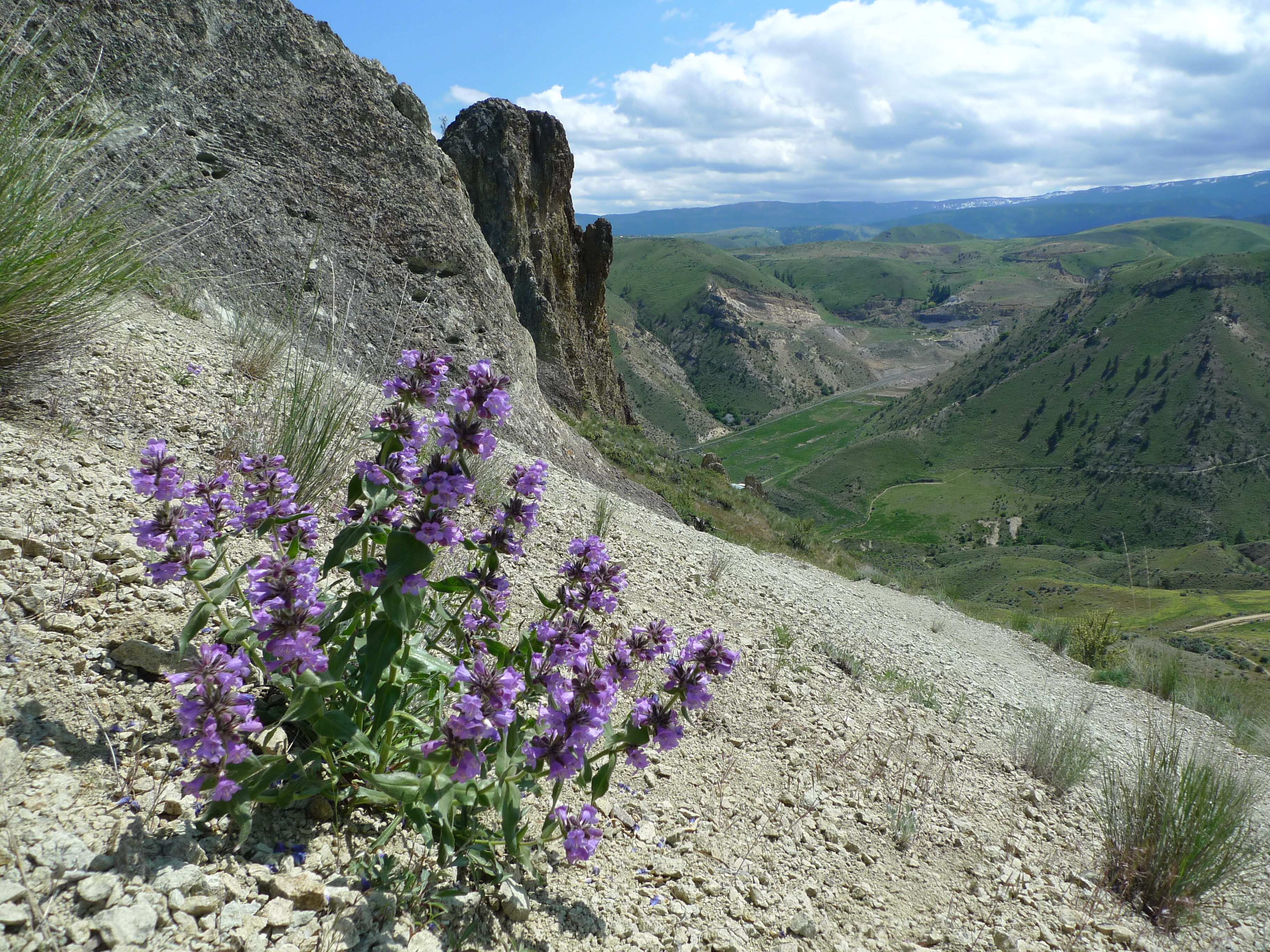 Penstemon eriantherus var. whitedii at Saddlerock, Chelan County Washington